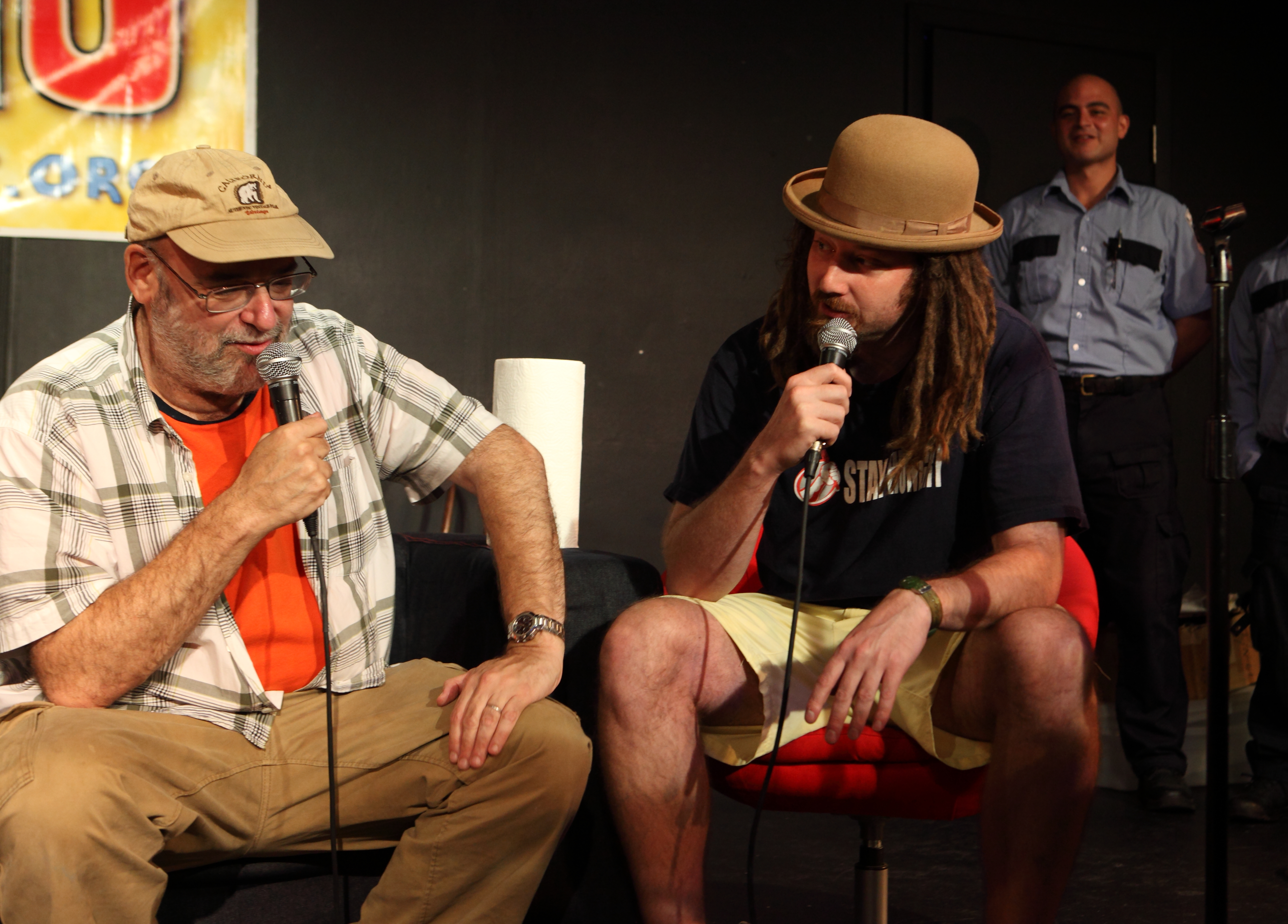 Andy Breckman in 2010